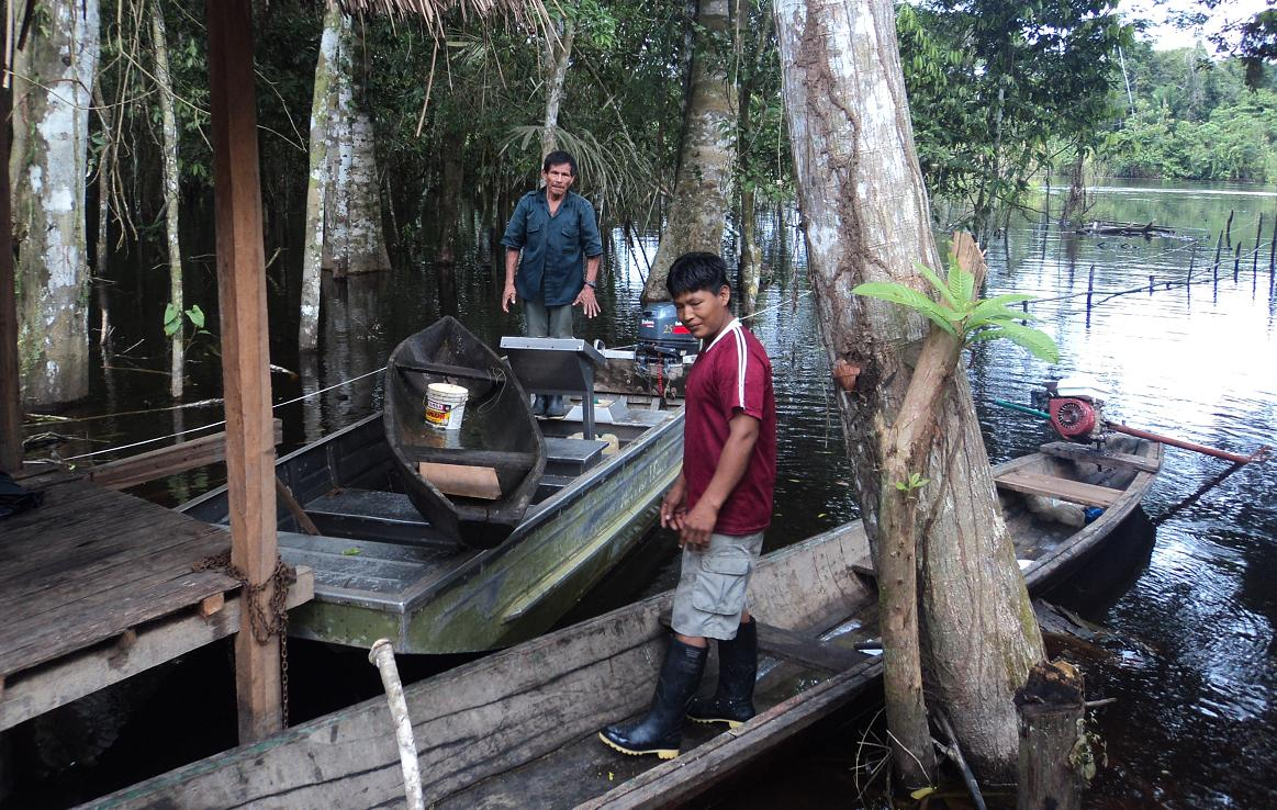 Amazon Guides